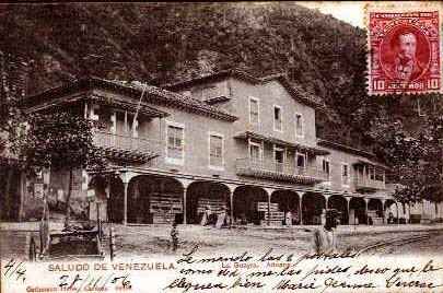 Casa Guipuzcoana at La Guaira, estado Vargas, in 1905. A postcard franked with a 1904 stamp. Stamp description: Antonio José de Sucre Series: Antonio José de Sucre Catalog codes: Mi. 78, Yt. 111 Issued on: 1904-07-01 Emission: Definitive Perforation: line 12 Printing: Recess Size: 24 x 28 mm Colors: Carmine Face value: 10 c - Venezuelan céntimo